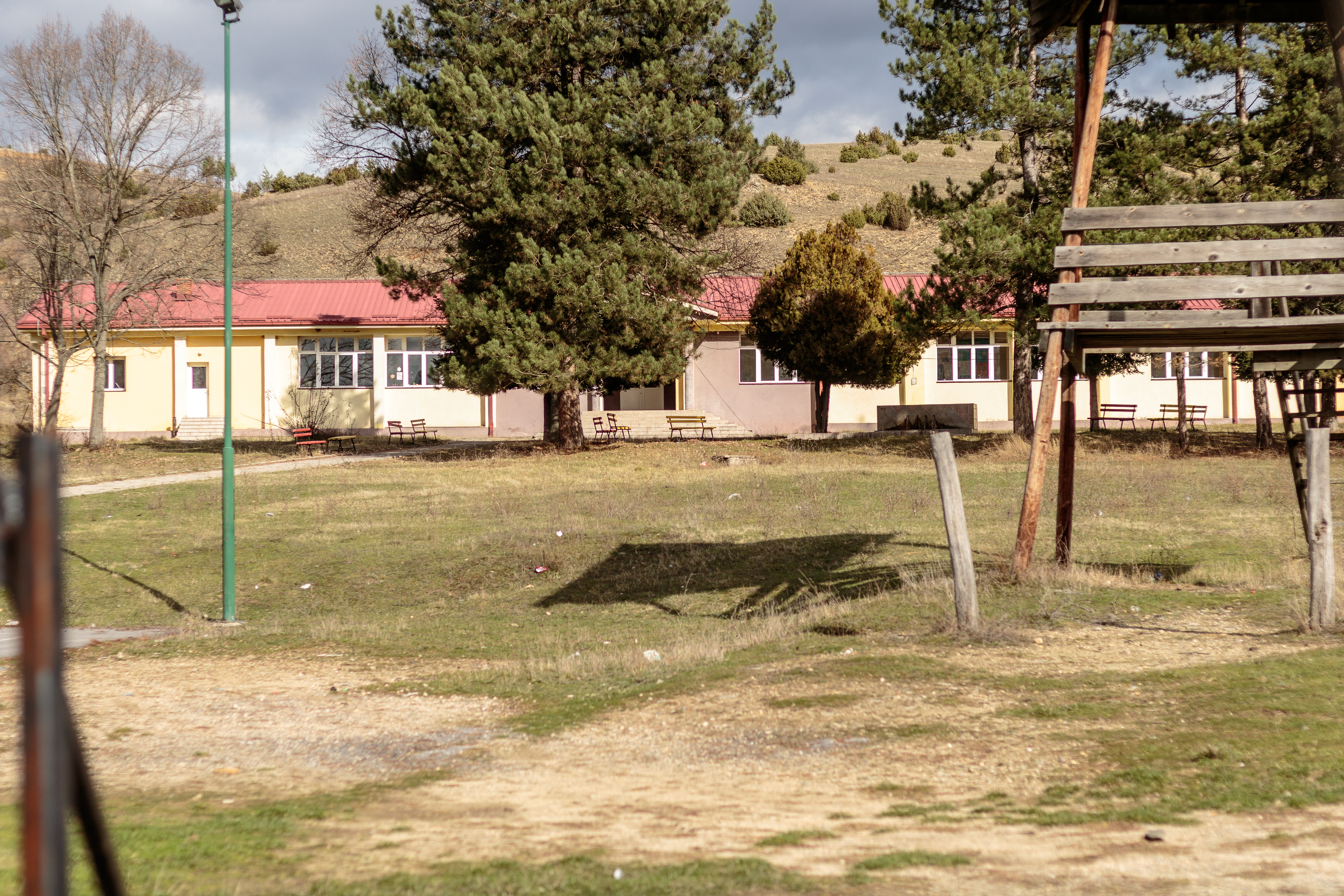 Primary school in the village of Budinarci, Maleševija, Macedonia